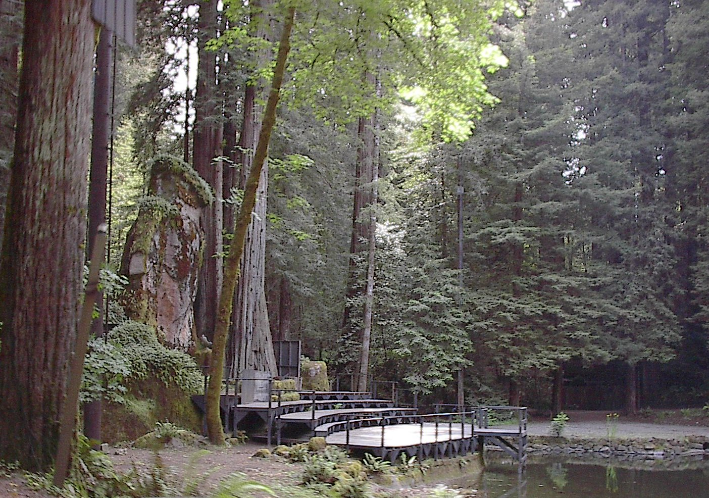 Owl Shrine